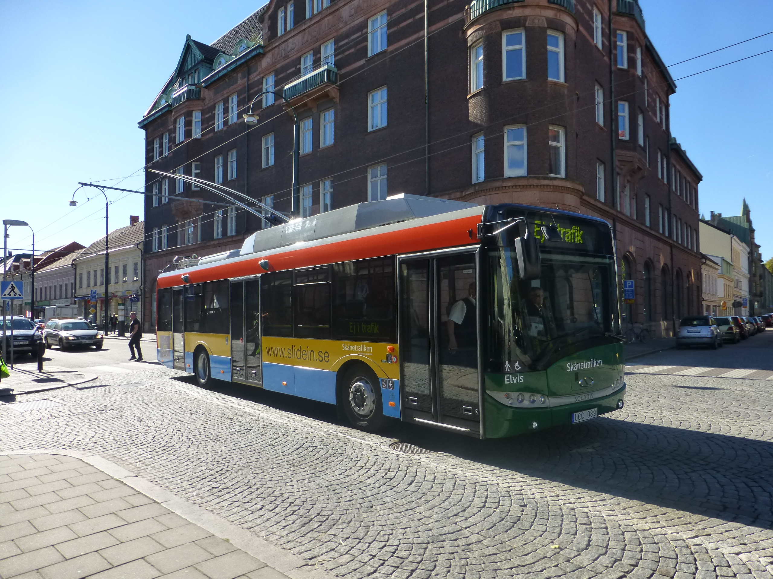 Slidein trolleybus 6994 "Elvis" on Storgatan in Landskrona.